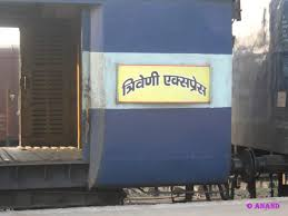 This is a Train which connects the some parts of Uttar Pradesh